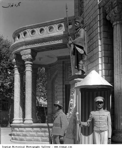 Soldiers in modern attires stay guard by the statue of an Acaemenid spearman at Royal Guard Headquarters in Tehran.